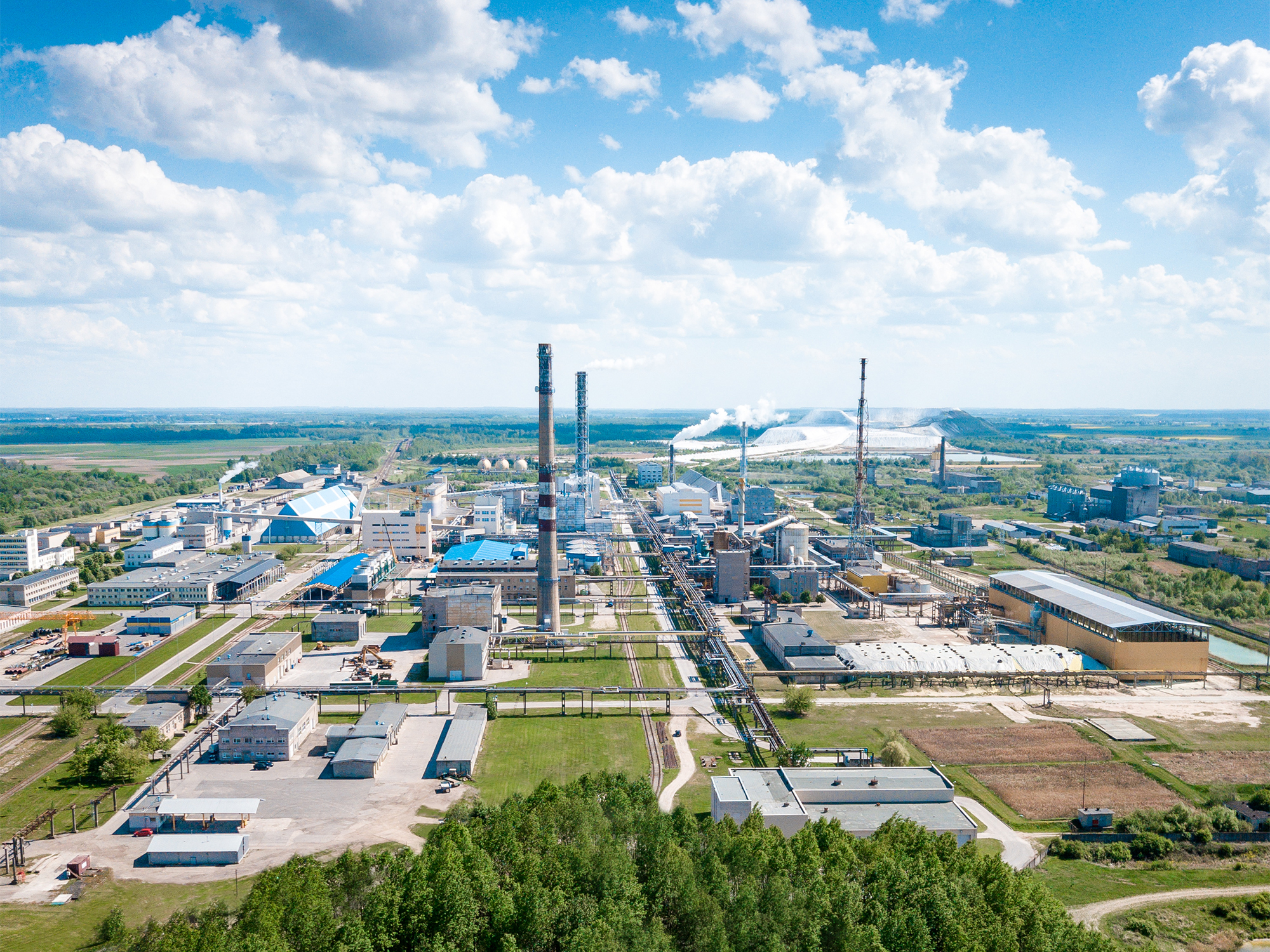 АB „Lifosa“ gamykla Kėdainiuose// Lifosa, AB plant in Kėdainiai